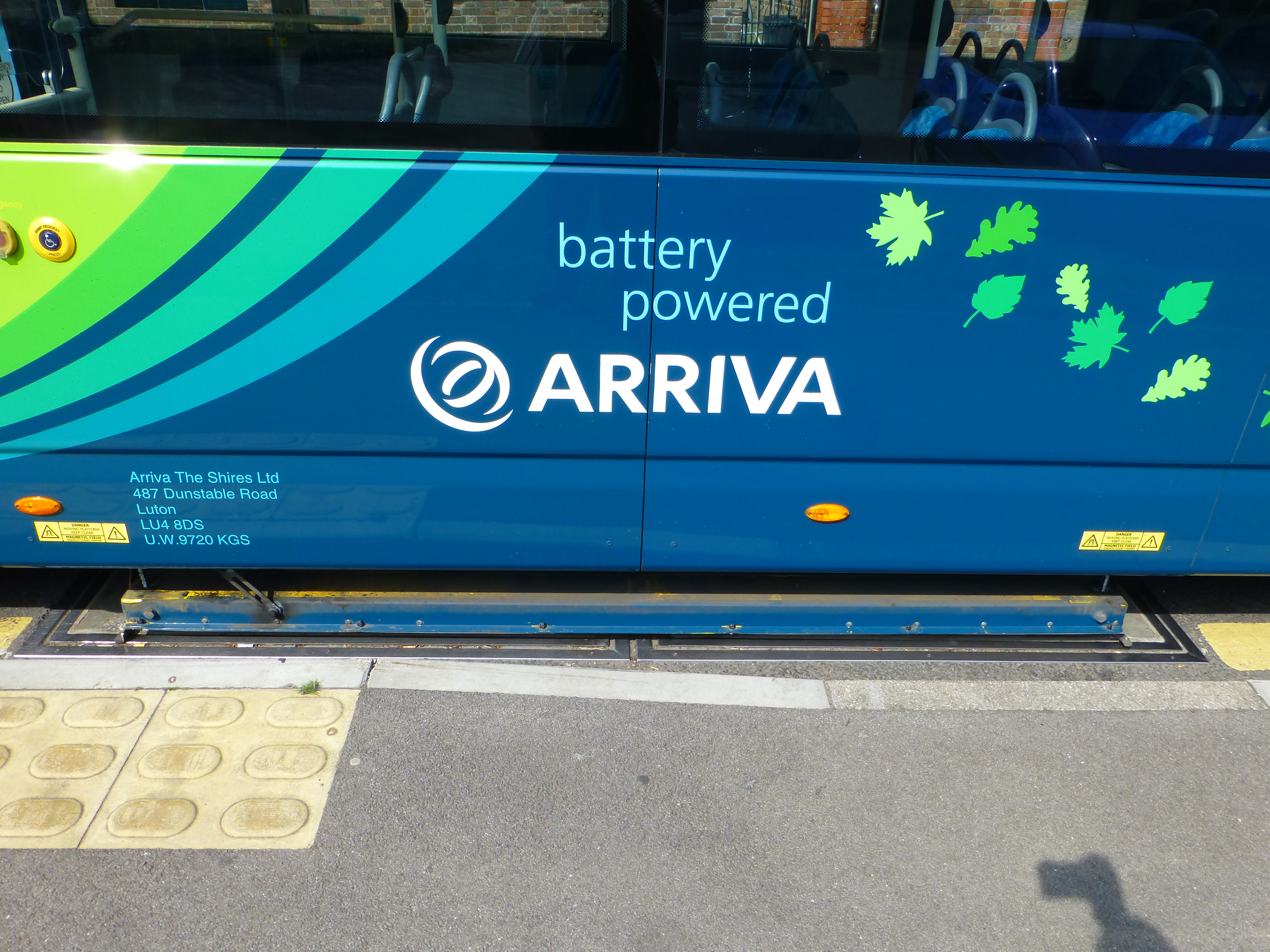 The lowered induction charging plate on an Arriva The Shires electric bus on route 7 at the Agora bus stop in Wolverton, Buckinghamshire. The bus is using wireless induction to recharge its batteries. The bus is a Wright StreetLite EV, registration mark KP63 TEU, fleet number 5007.